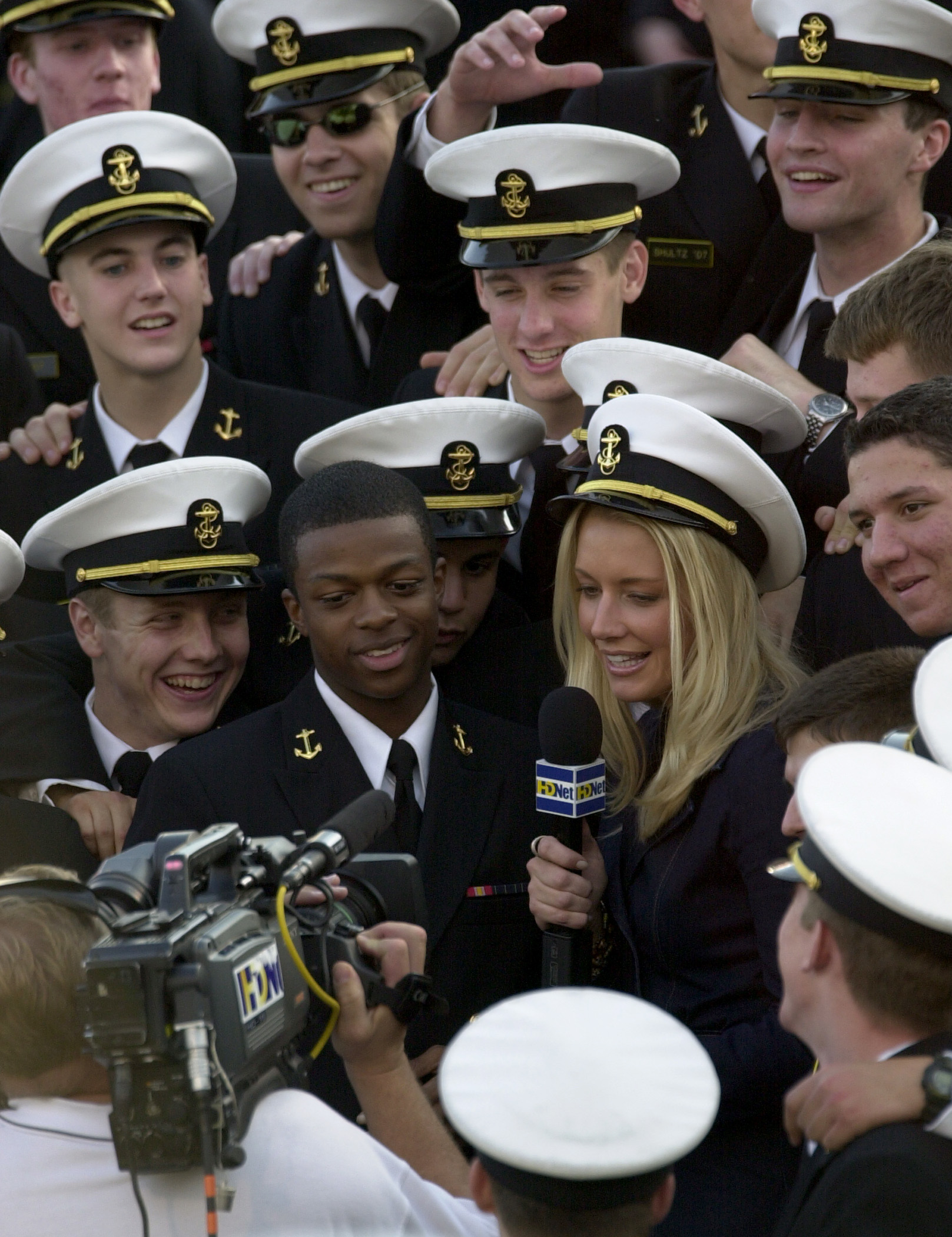 Annapolis, Md. (Nov. 1, 2003) -- HDNet broadcaster Kandace Krueger (center right) interviews Midshipman 4th Class Michael Levinson (center left), from Willingboro, N.J., during Navy's 35-17 victory over Tulane. The Midshipmen, ranked first in the nation in rushing offense, gained 357 yards on the ground. Navy (6-3) beat Tulane for the first time since 1999. The Green Wave (3-6) lost for the fifth straight time. U.S. Navy photo by Photographer’s Mate 2nd Class Damon J. Moritz. (RELEASED)